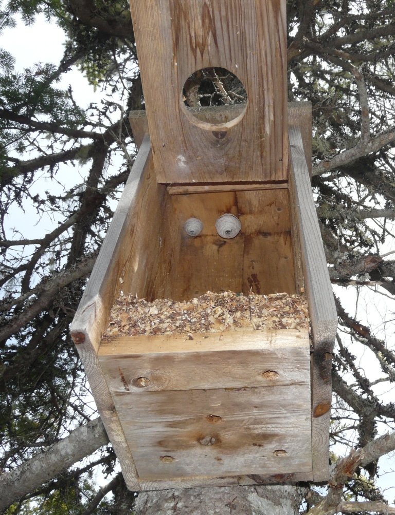 This is a nest box for Boreal Owls in Cape Breton Highlands National Park, Nova Scotia, Canada. The front door is open to allow for inspection. Wasp nests are uncommonly found in these nest boxes, and this box has two, a unique event in my experience.